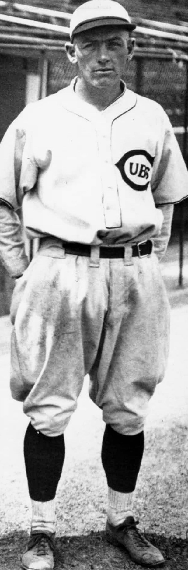 Professional baseball player Jigger Statz